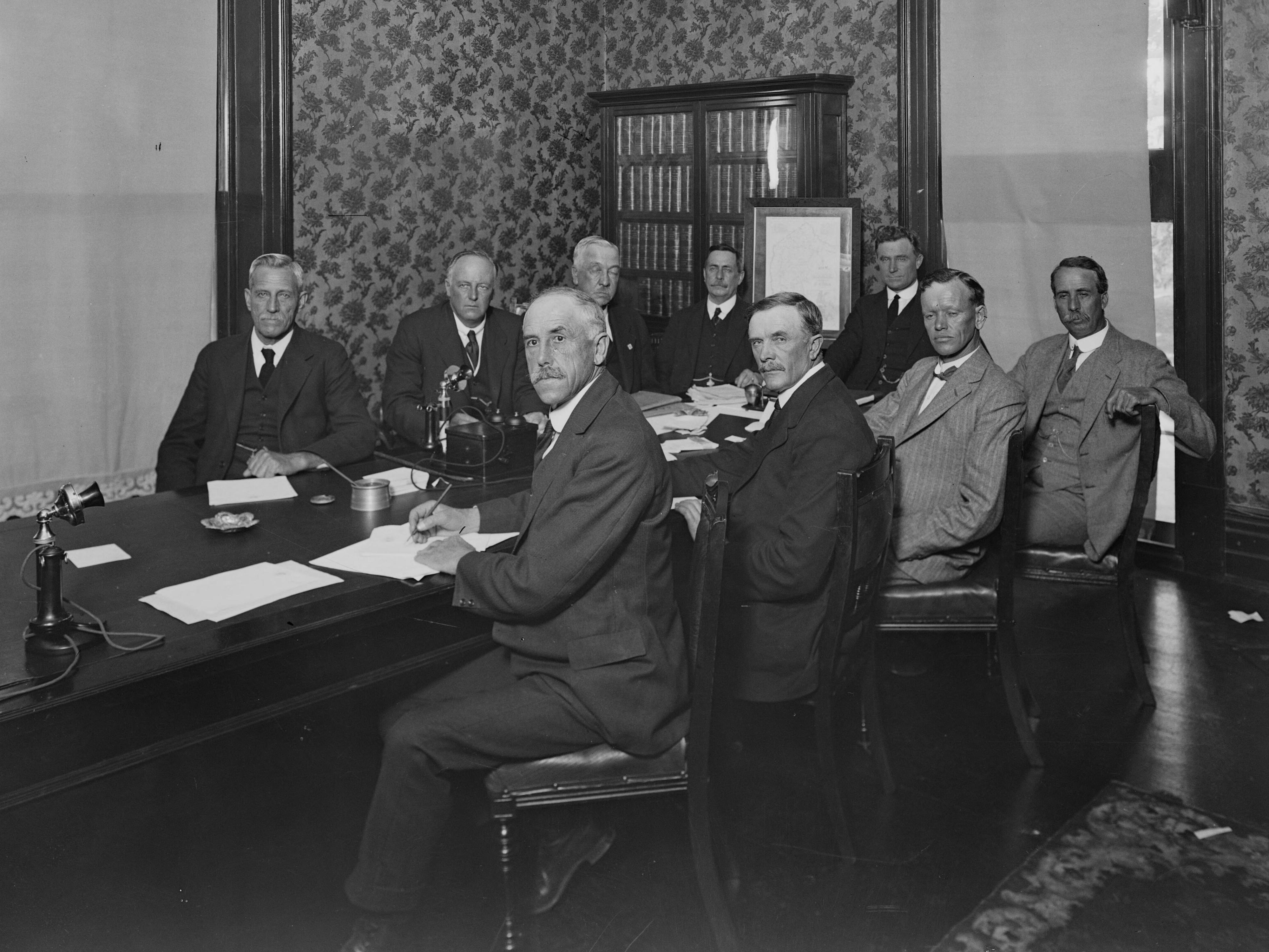 Members of the first Bruce ministry at the first official cabinet meeting in Canberra. Clockwise from left: Sen. Thomas Crawford, Honorary Minister Eric Bowden MP, Minister for Defence Austin Chapman MP, Minister for Trade and Customs and Minister for Health Sir Littleton Groom MP, Attorney-General Earle Page MP, Acting Prime Minister and Treasurer Sen. Sir George Pearce, Minister for Home and Territories Percy Stewart MP, Minister for Works and Railways William Gibson MP, Postmaster-General Llewellyn Atkinson MP, Vice-President of the Executive Council